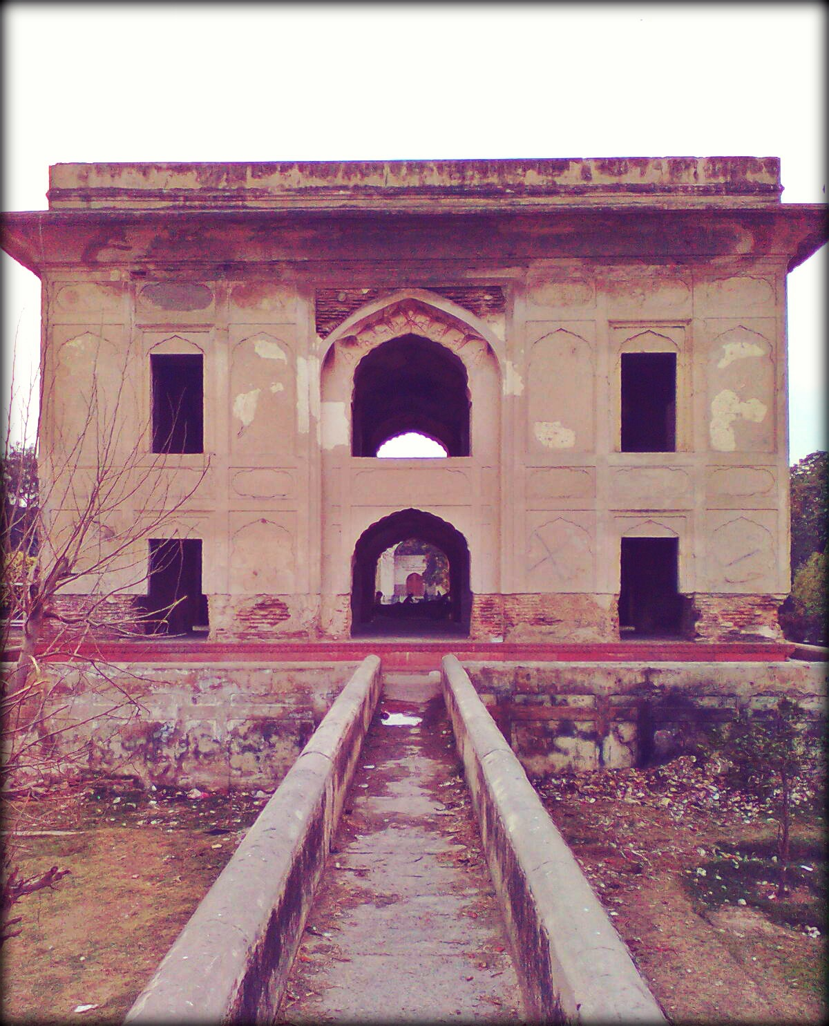 Tomb and Tank of Nadira Banu Begum is situated near Lahore canal adjecent to Mian Mir tomb. Lahore - Pakistan. This is a photo of a monument in Pakistan identified as the PB-72